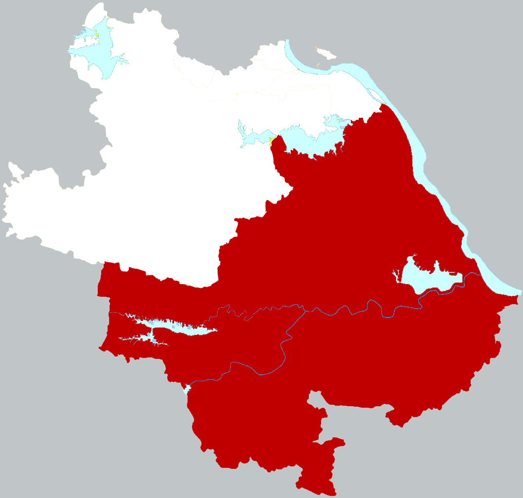 Location of Yangxin county in Huangshi city, China